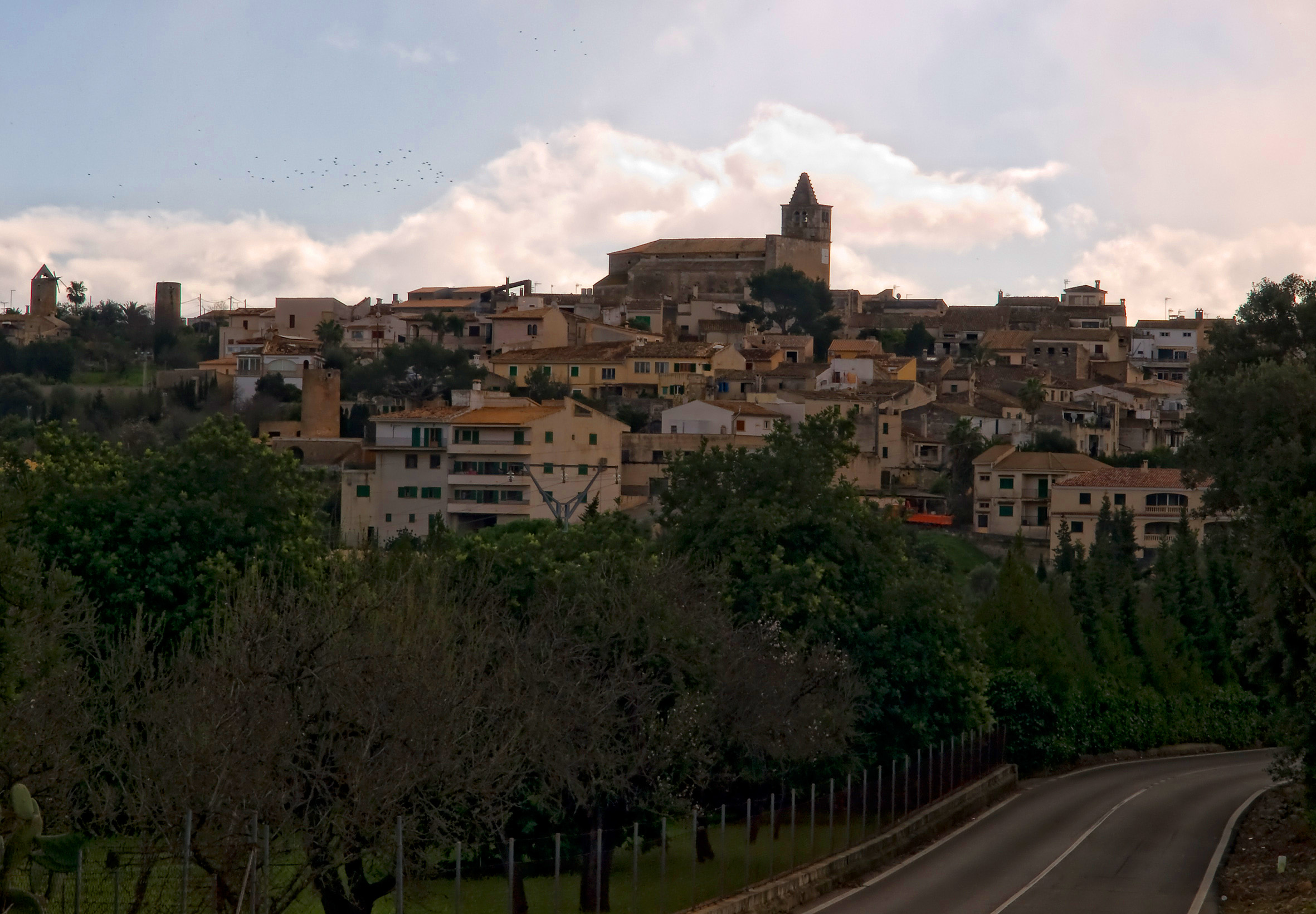 General landscape of Búrger (Mallorca, Spain)